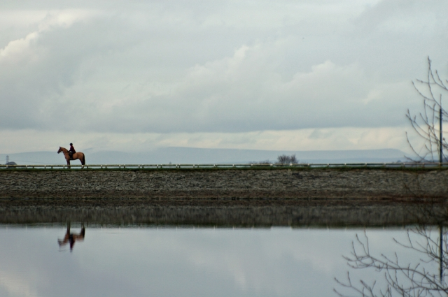 Roddlesworth lower reservoir. The reservoir is a popular place for walking, and it seems horseriding too. On the horizon are the fells of the Forest of Bowland